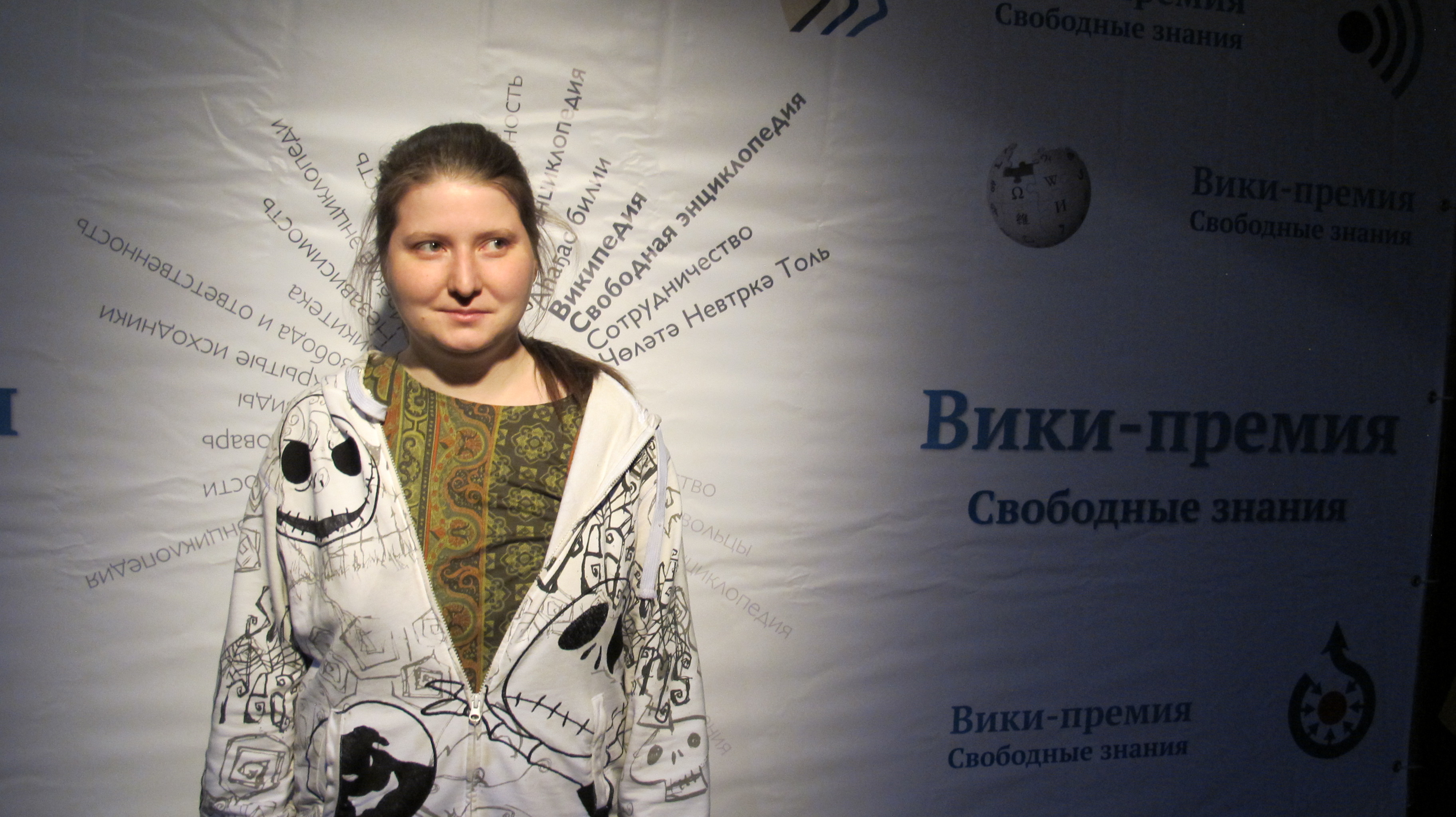 Wiki-award 2016